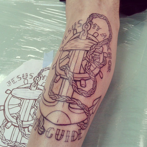 An anchor tattoo on a person's arm, and the sketch it was based on.